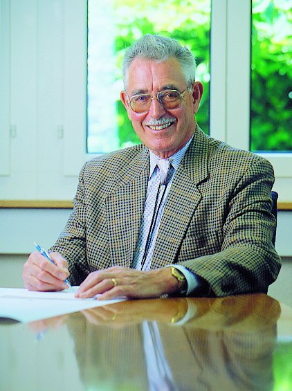 Dialma Jakob Baenziger